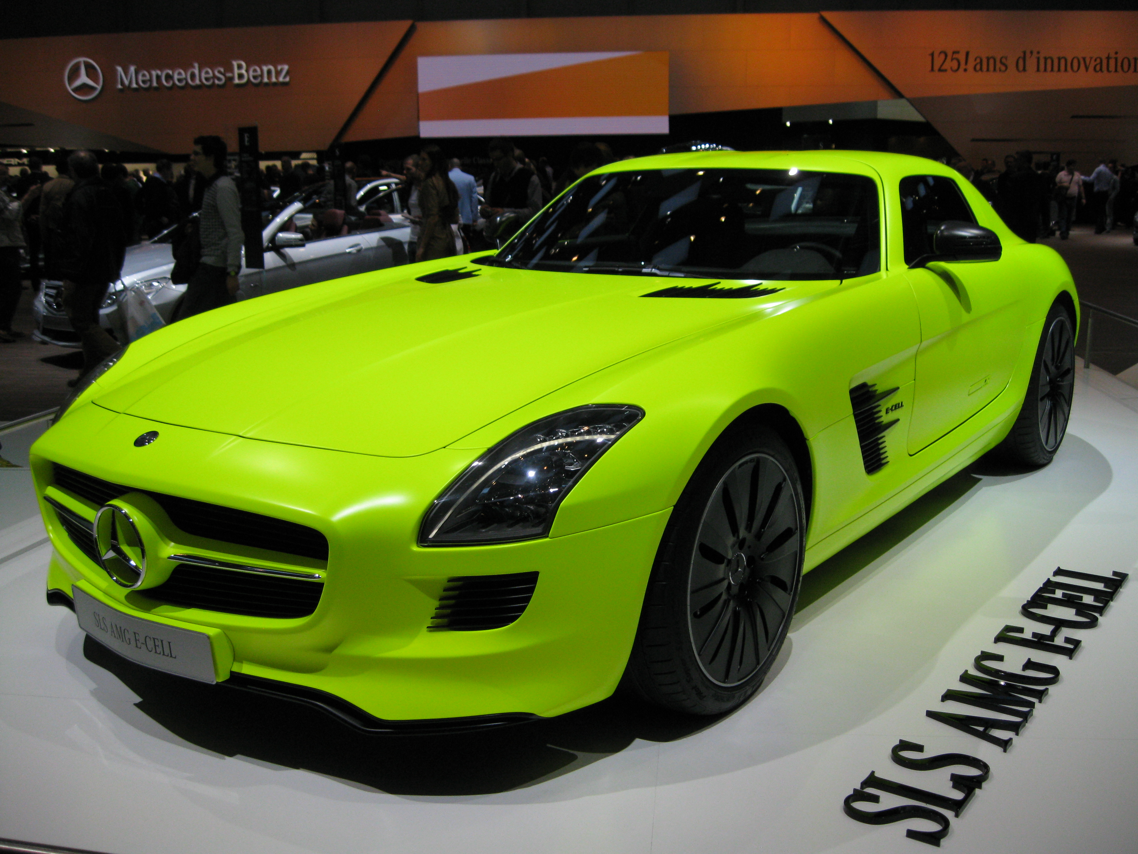 Geneva Motor Show 2011